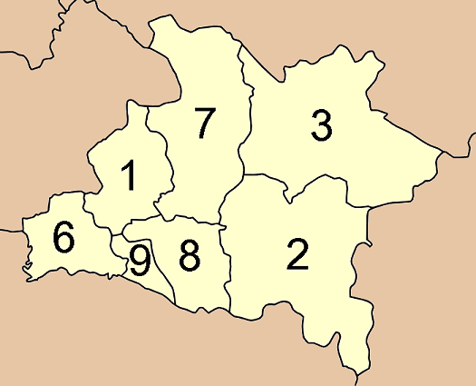 Map of Prachinburi province, Thailand, with the districts (Amphoe) numbered. 1. Mueang Prachin Buri (อำเภอเมืองปราจีนบุรี) 2. Kabin Buri (อำเภอกบินทร์บุรี) 3. Na Di (อำเภอนาดี) 6. Ban Sang (อำเภอบ้านสร้าง) 7. Prachantakham (อำเภอประจันตคาม) 8. Si Maha Phot (อำเภอศรีมหาโพธิ) 9. Si Mahosot (อำเภอศรีมโหสถ) Missing numbers now form Sa Kaeo province.